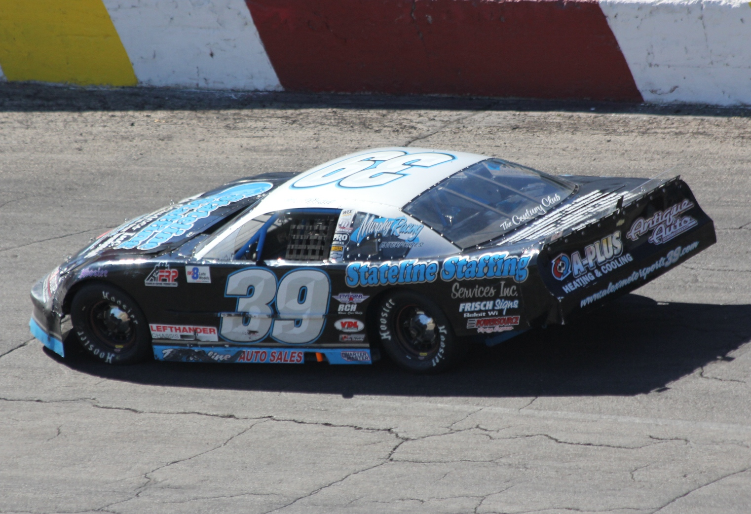 The late model of 2013 Rockford Speedway track champion Alex Papini at the speedway's National Short Track Championship race weekend in the Big 8 class.